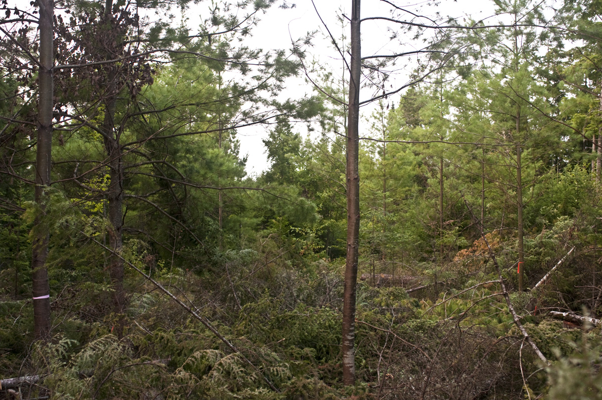 Eastern white pine after competing trees have been cut and left to return to the soil. The branches have been pruned to 8 feet to produce knot-free lumber.